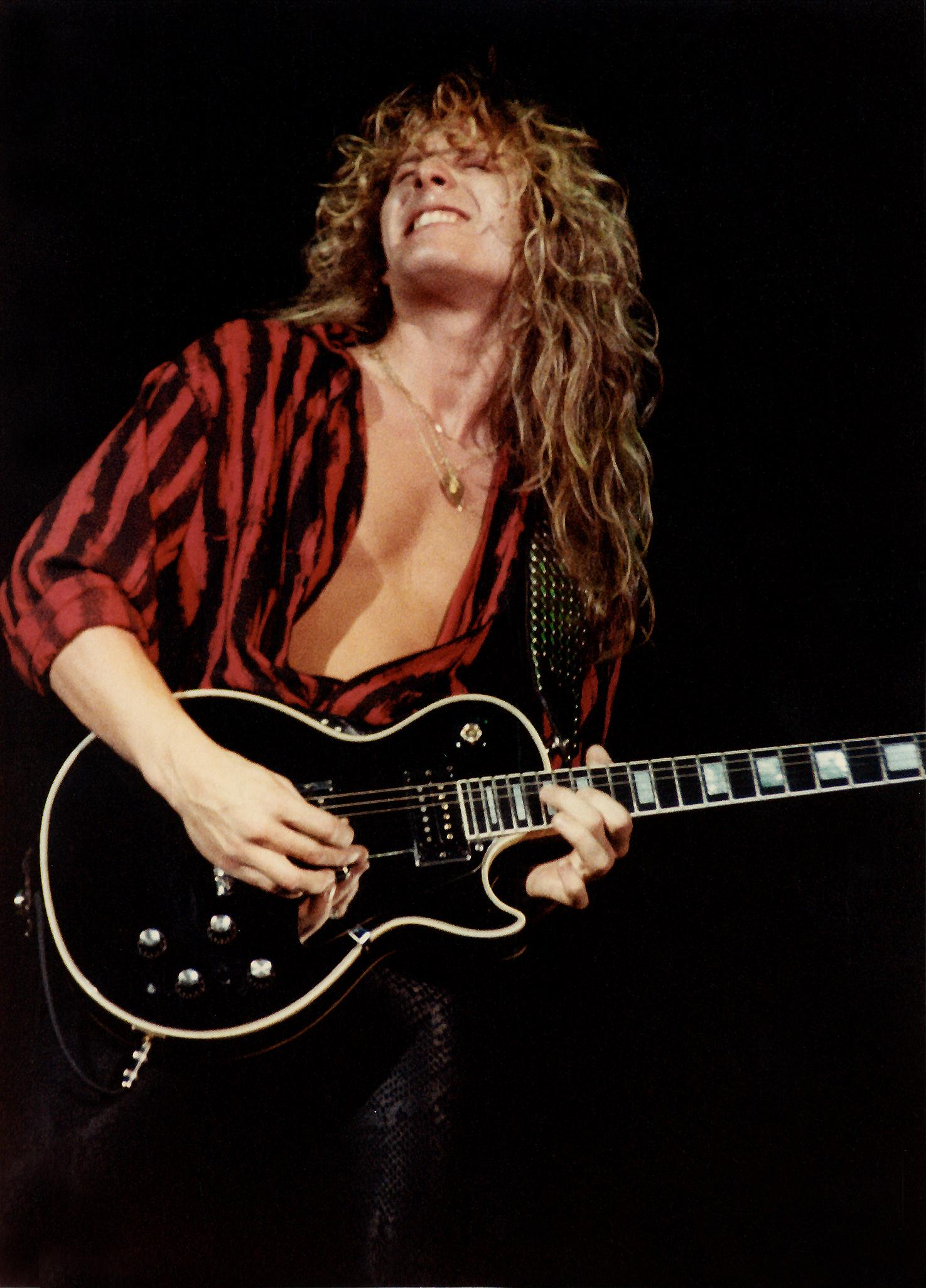 Just after the disbanding of Thin Lizzy, and beginning his association with Whitesnake - John Sykes performing on guitar at the Oakland Coliseum, Oakland, California. Sept. 22, 1984. Taken with a Canon AE-1, 80-200 Toyo lens, 400 ASA.